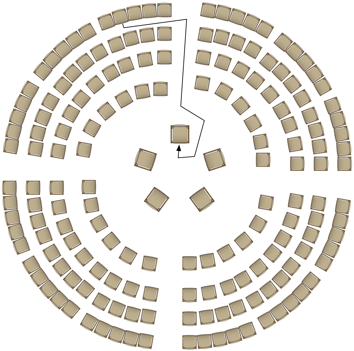 Diagram of the chair layout for a fishbowl conversation setup, with room for 168 participants in the audience, and 4 or 5 in the fishbowl (depending on whether the fishbowl is open or closed). Also shows an example path of an audience member moving to the fishbowl.